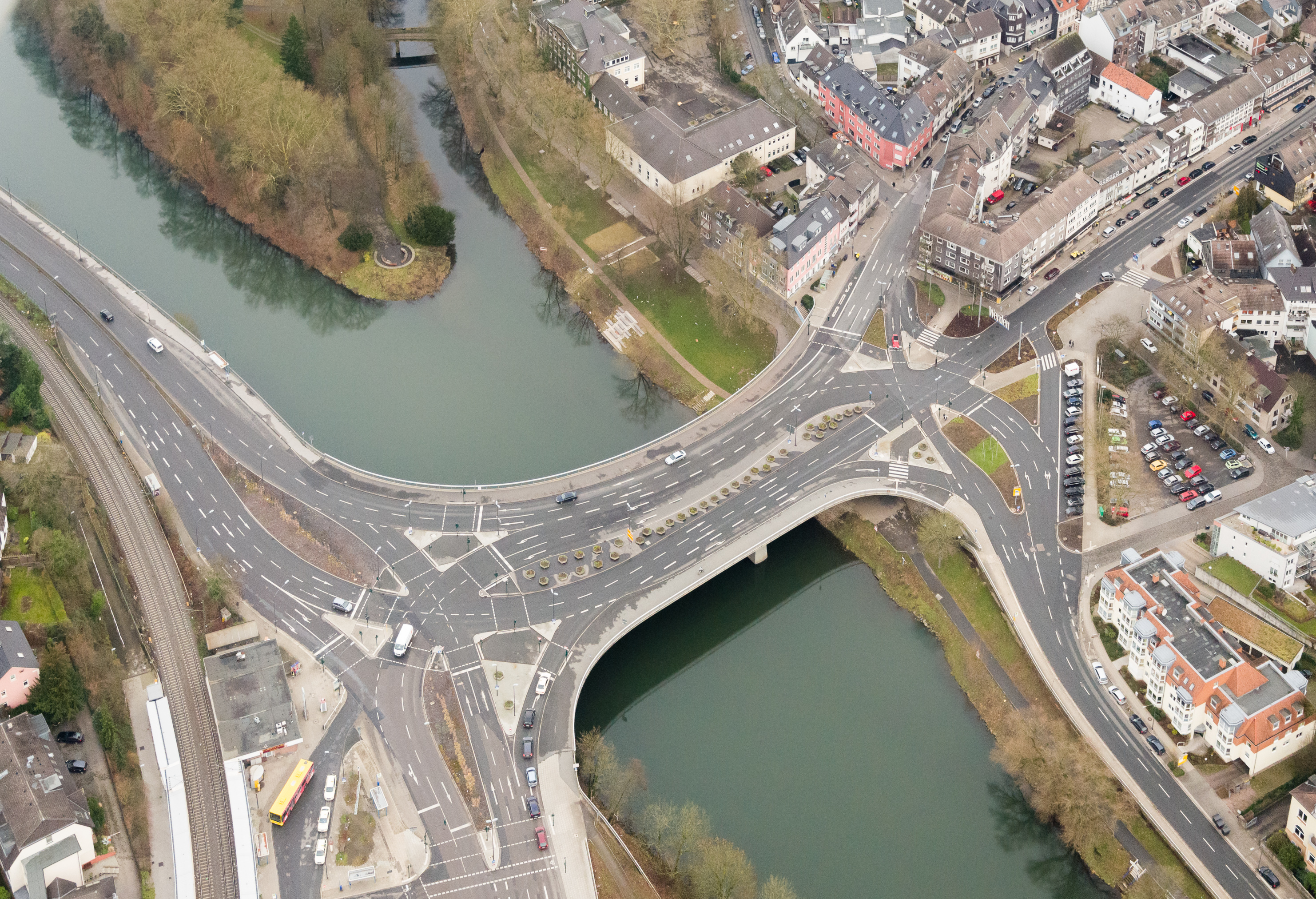 Aerial photograph of Gustav-Heinemann-Bridge over river Ruhr at Essen Werden